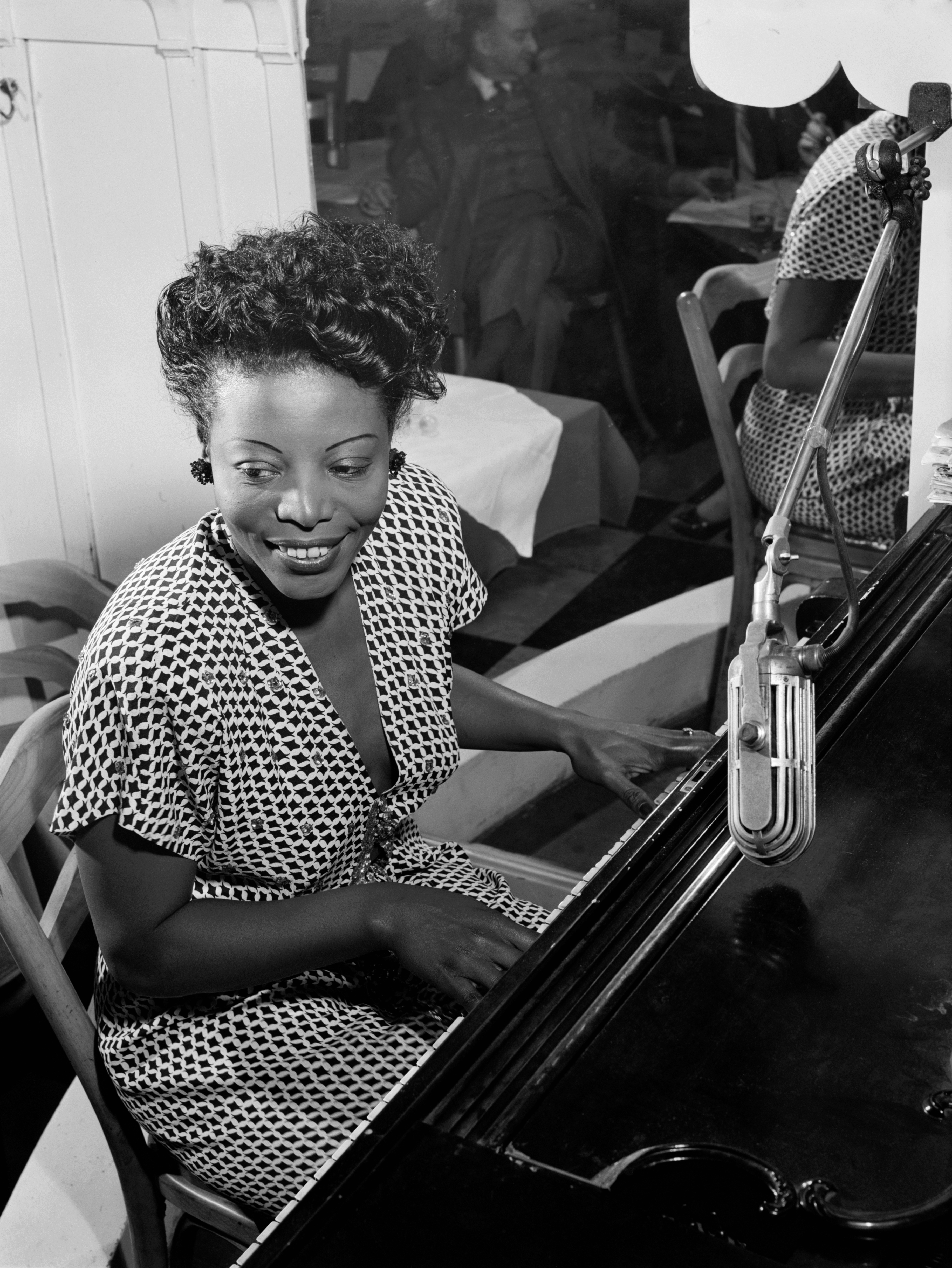 [Portrait of Mary Lou Williams, New York, N.Y. ca. 1946]